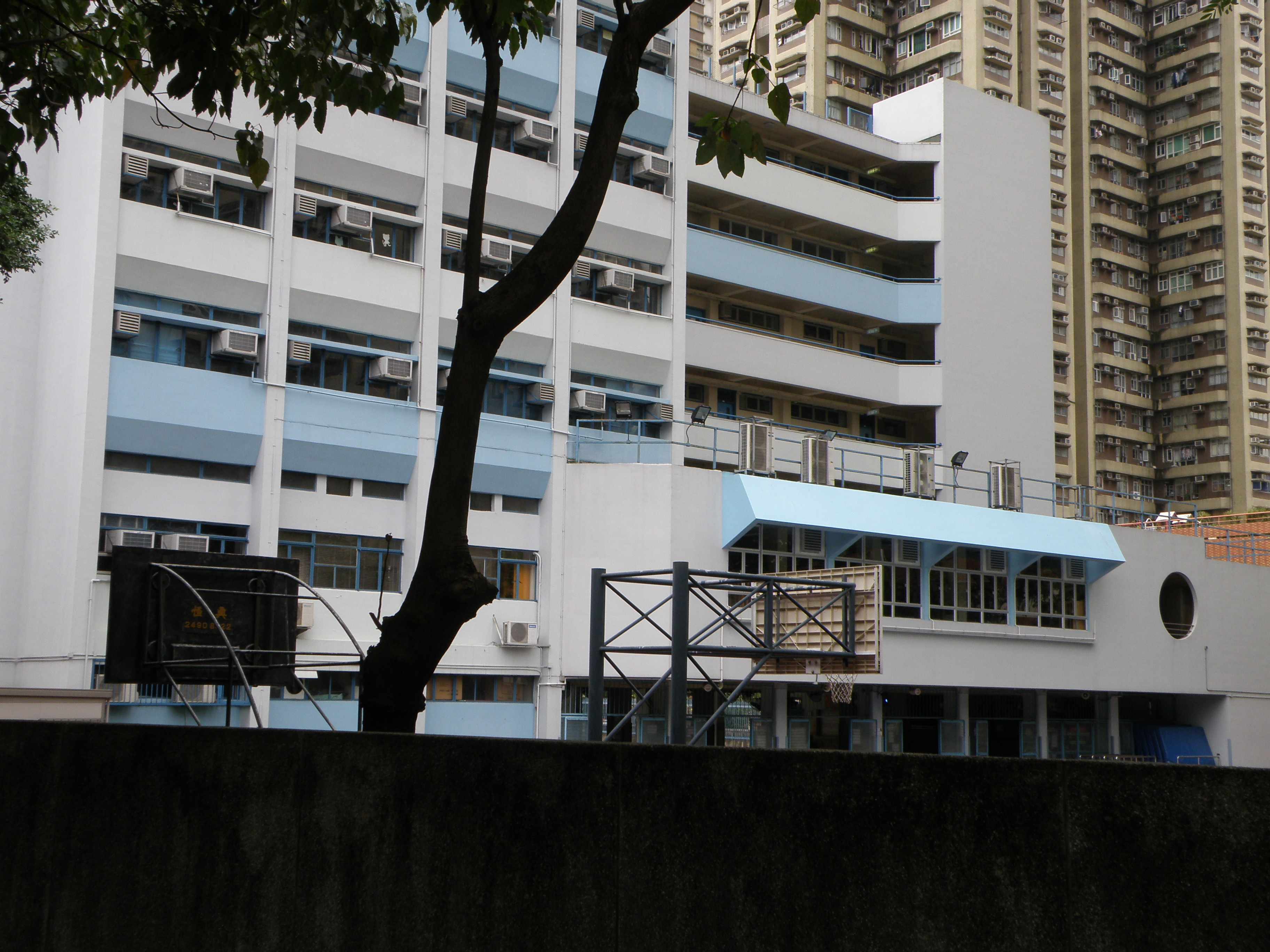 A.D. & F.D. Of Pok Oi Hospital Mrs. Cheng Yam On School in Tuen Mun, Hong Kong.